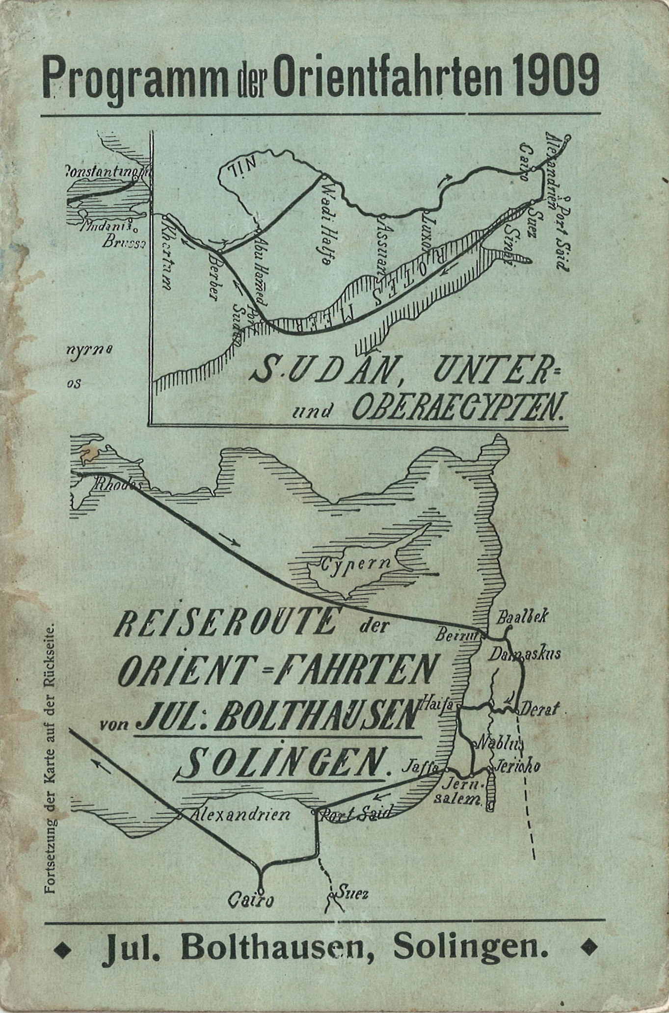 Advertizement of the orient travel 1909, front cover; contains theyear program of SS Thalia (author: Julius Bolthausen [+ 1947])